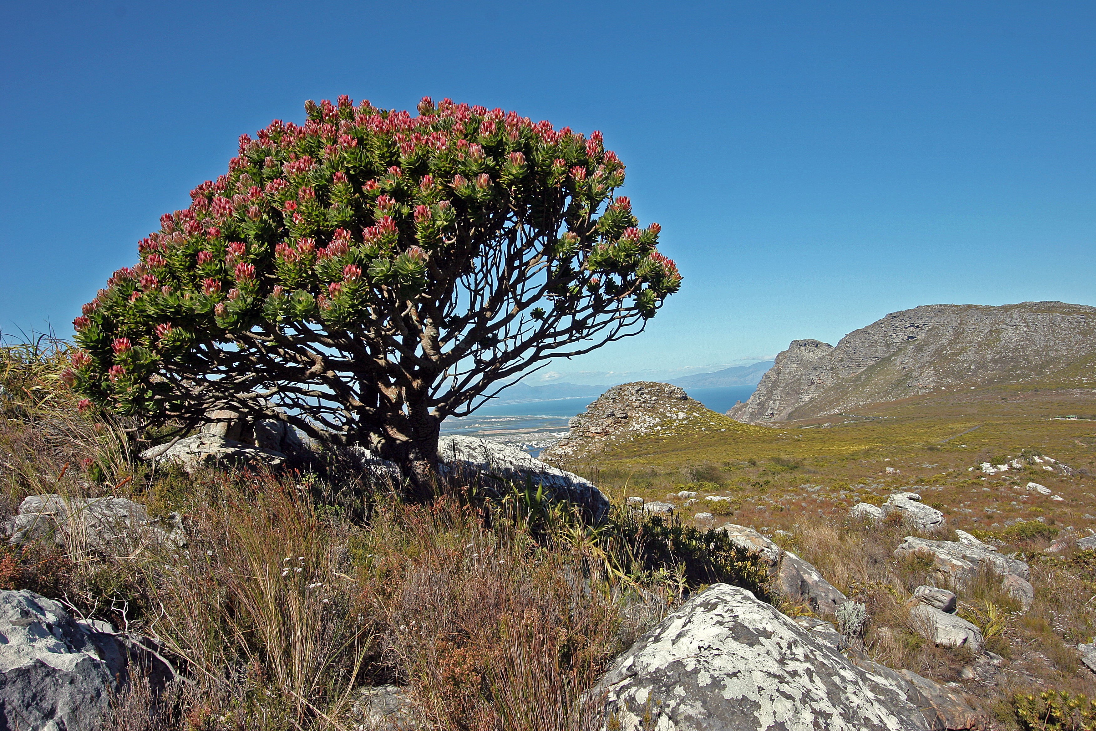 Mimetes fimbriifolius, tree in flower; Silver Mine above Tokai, Table Mountain National Park, Cape Town, Western Cape, South Africa